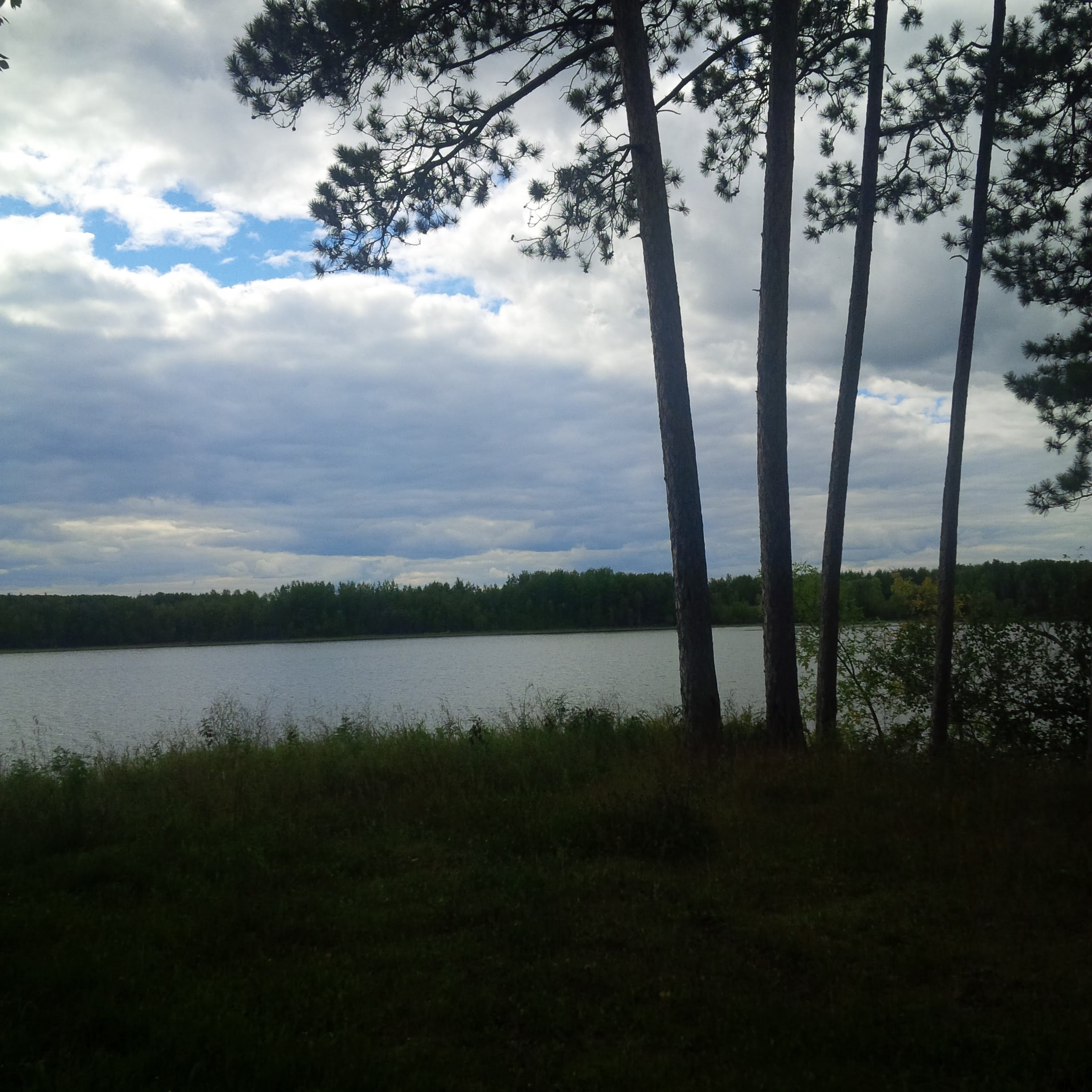 White Pine trees growing along the Rainy River